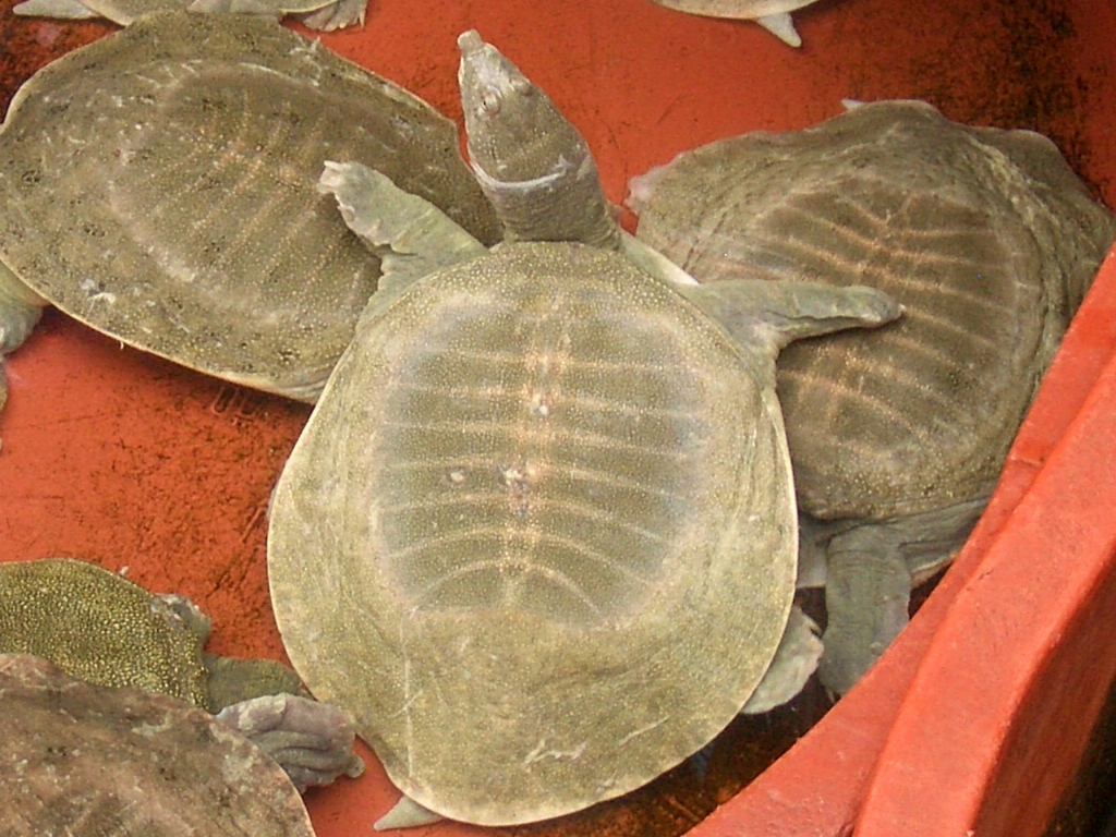 Chines soft-shell turtles sold in a ginseng-and-matsutake shop in Namdaemun Market, Seoul.